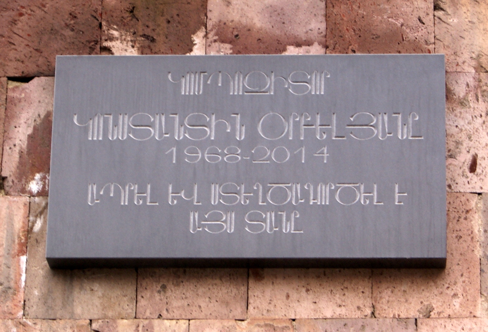 Konstantin Orbelyan's plaque on Demirchyan street, Yerevan